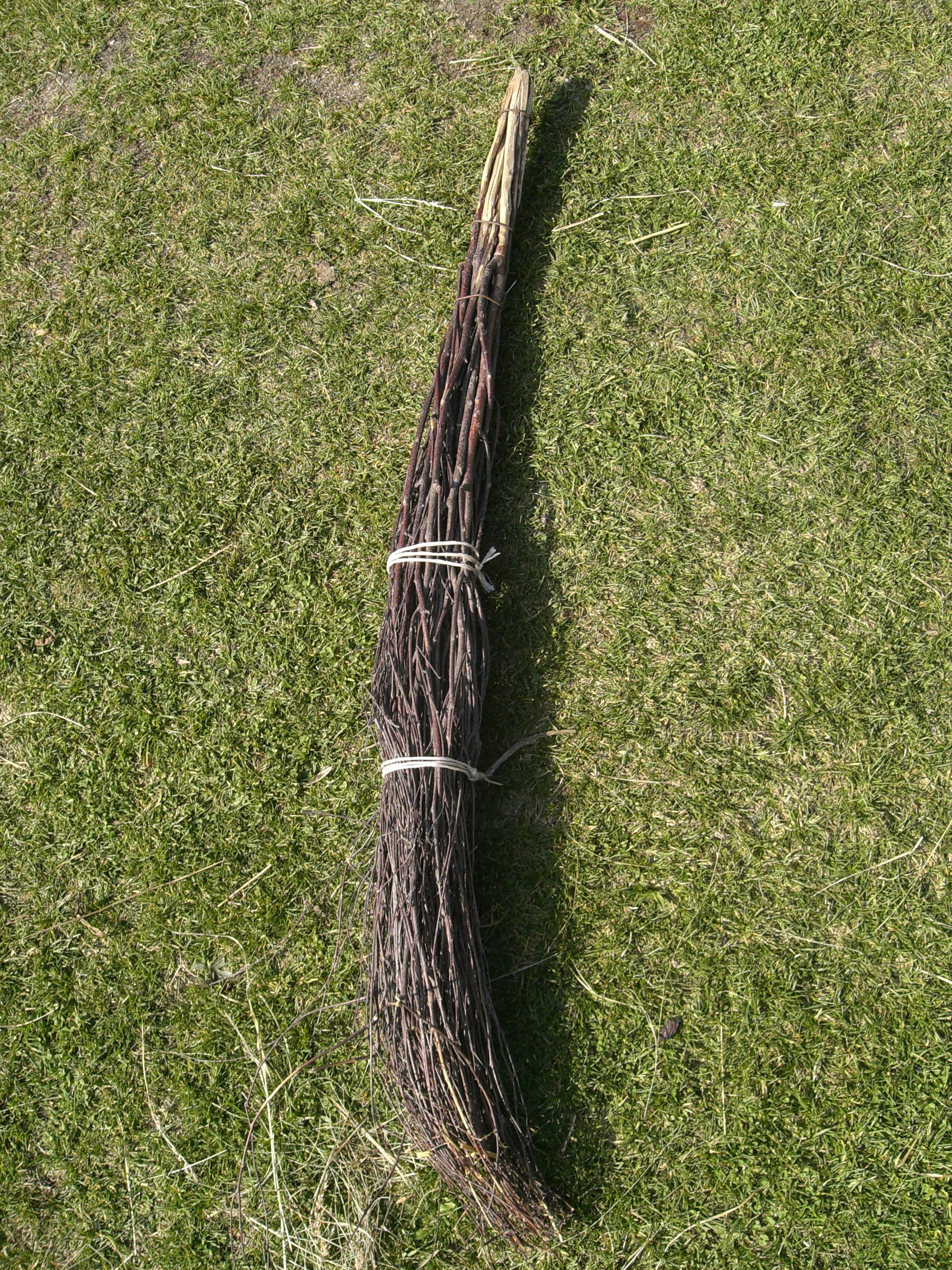 Broom